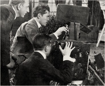 Director Maurice Tourneur (left) with his 1st cameraman Lucien Andriot (high) and 2nd cameraman John Van Den Broek on the set of The Poor Little Rich Girl (released in 1917), Paragon Studios, Fort Lee, New Jersey